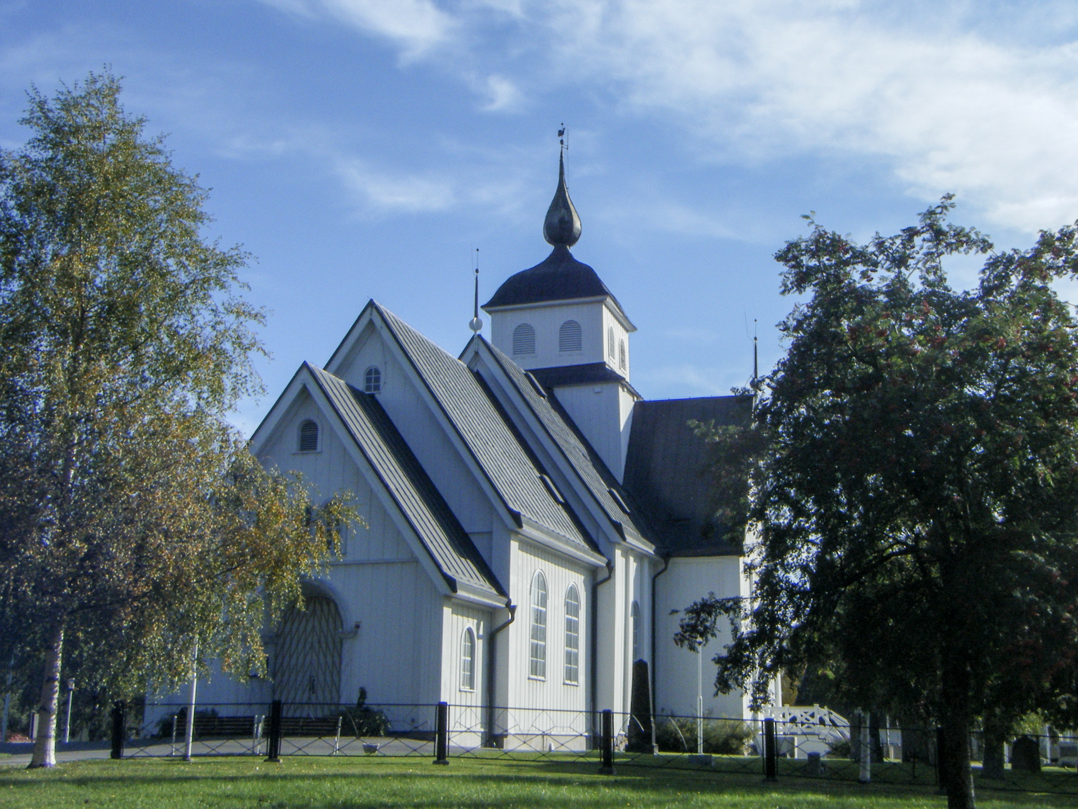 The Piteå town church (Piteå stadskyrka) of 1686